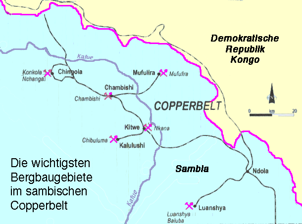 biggest mines in copperbelt of Zambia and their nearest town